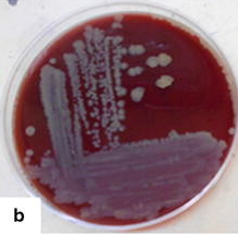 In-vitro Bacteriological culture of Corynebacterium xerosis and Corynebacterium pseudotuberculosis. Bacteria were cultured in 8 % sheep blood agar. Corynebacterium xerosis isolate, grew as small yellowish-brown colonies without haemolysis. Image cropped by uploader.